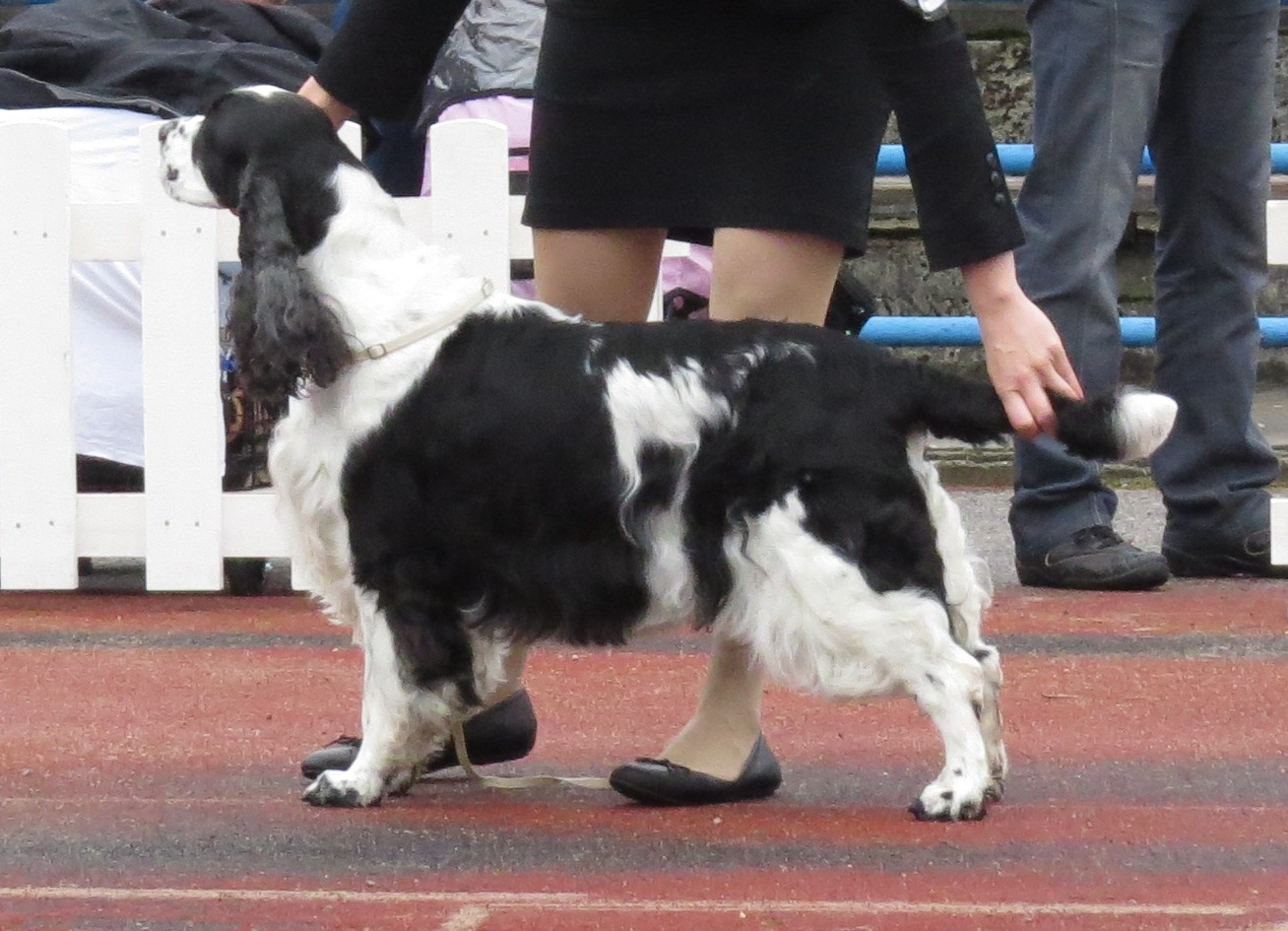 Tallinn, Estonia, duo CACIB 2013 August 17-18